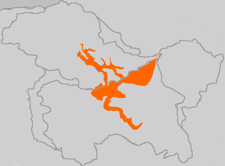 Source: Language map of Pakistan